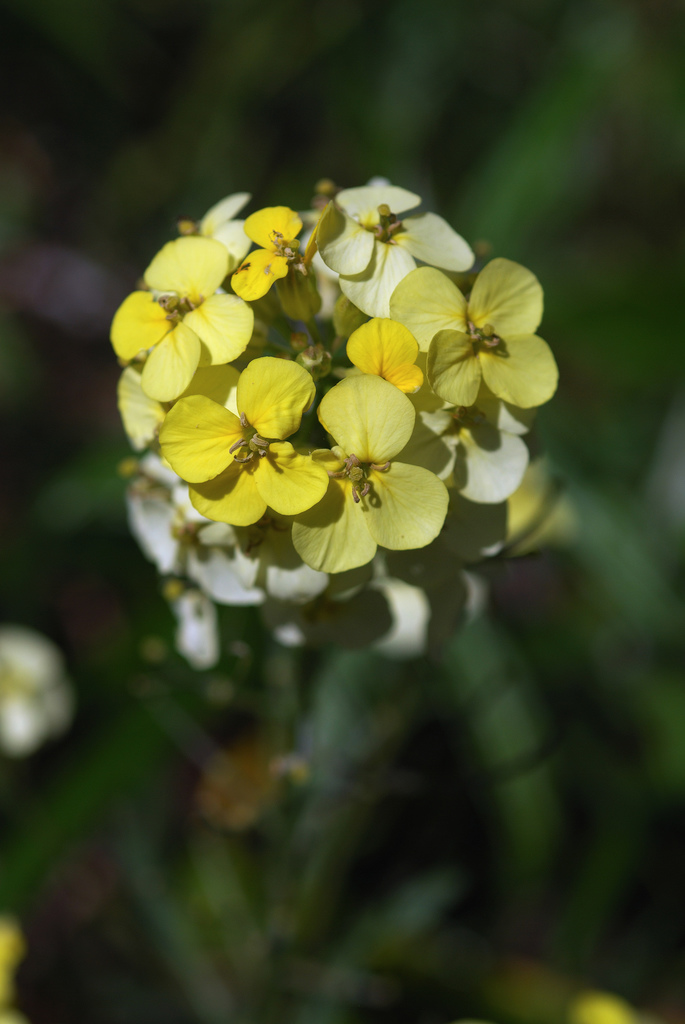 Erysimum franciscanum — Franciscan Wallflower, San Francisco Wallflower. In the University of Californa Botanical Garden, Berkeley Hills. Endemic to the northern California coast Coastal sage and chaparral habitats, from Sonoma to Santa Cruz Counties.